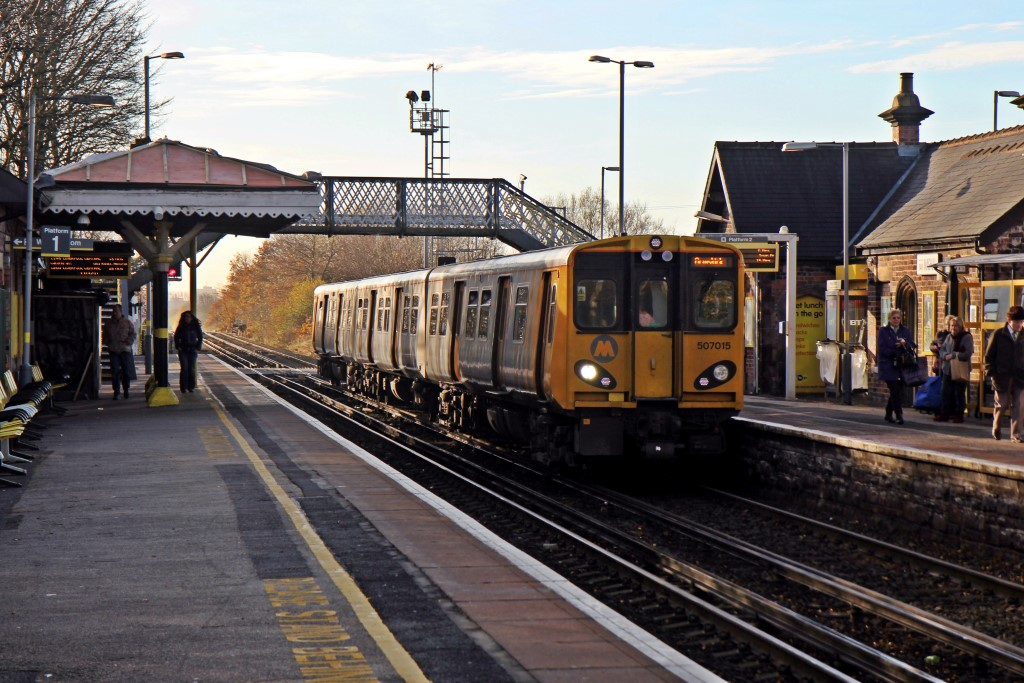 Merseyrail Class 507, 507015, Maghull railway station